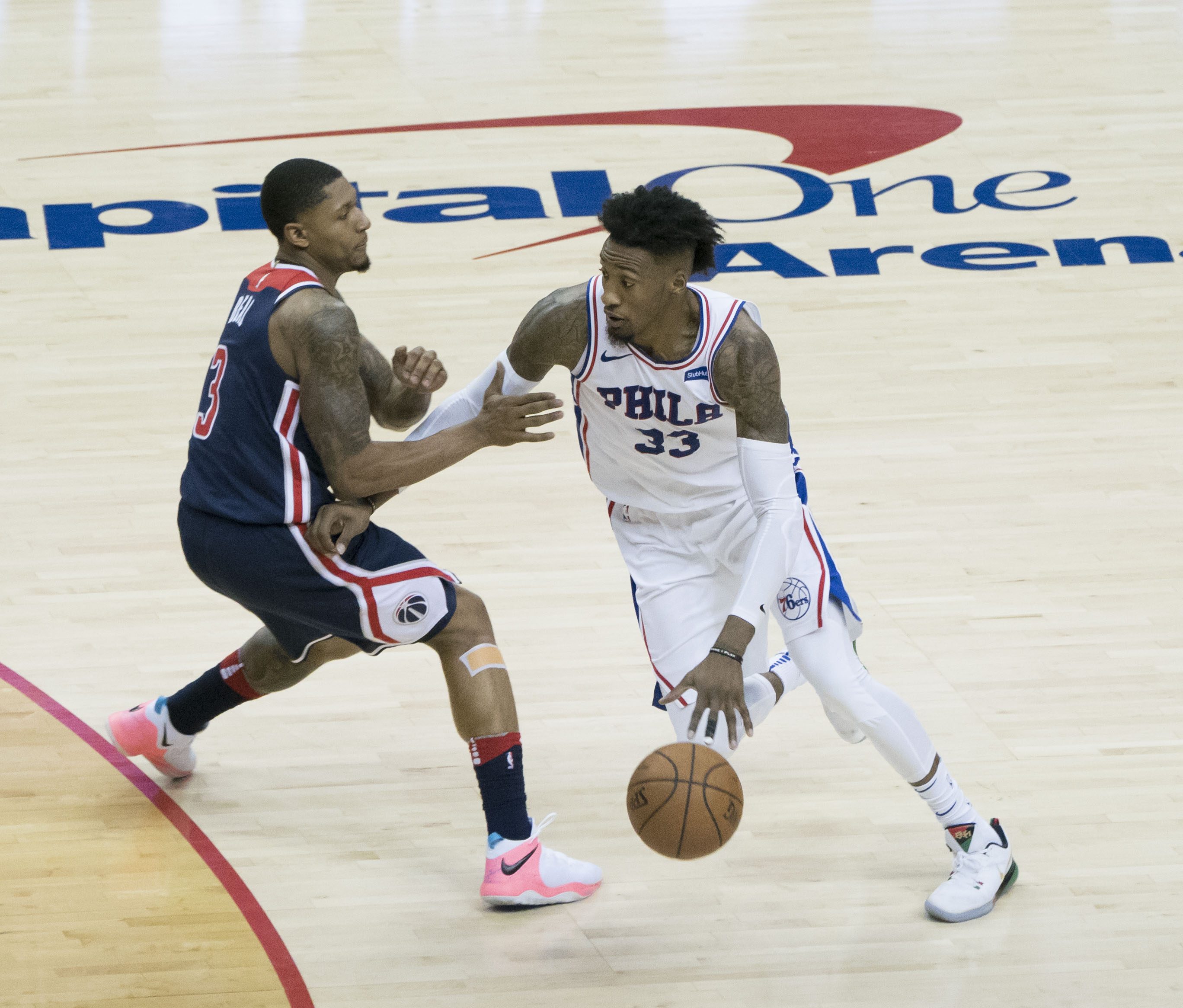 76ers at Wizards 2/25/18